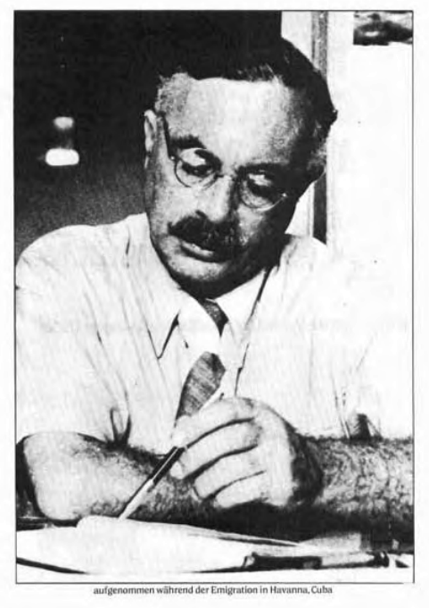 August Thalheimer in Havanna, Cuba